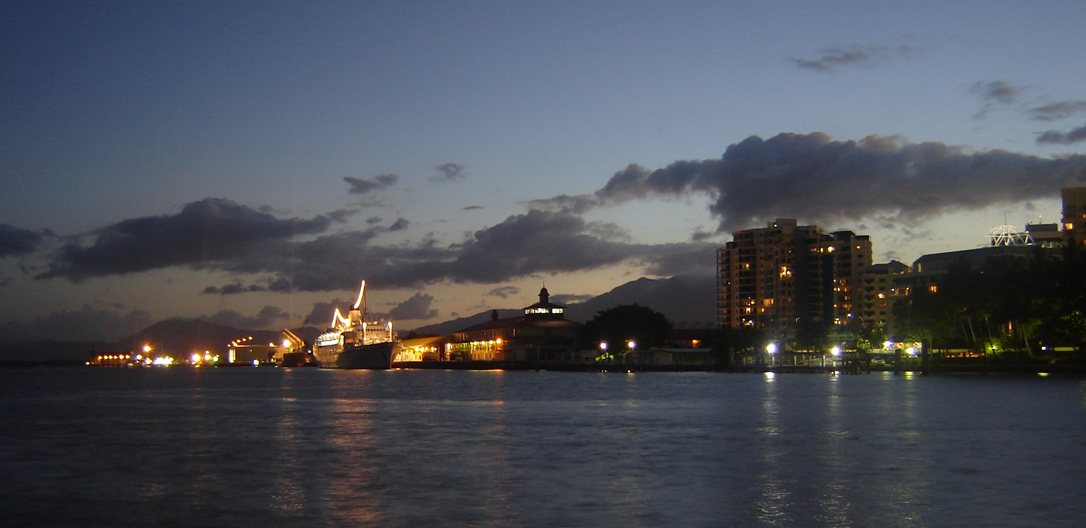 Cairns at night; this is the wharfs in the background. The casino's dome can be seen in the background. Photo taken by Frances76.